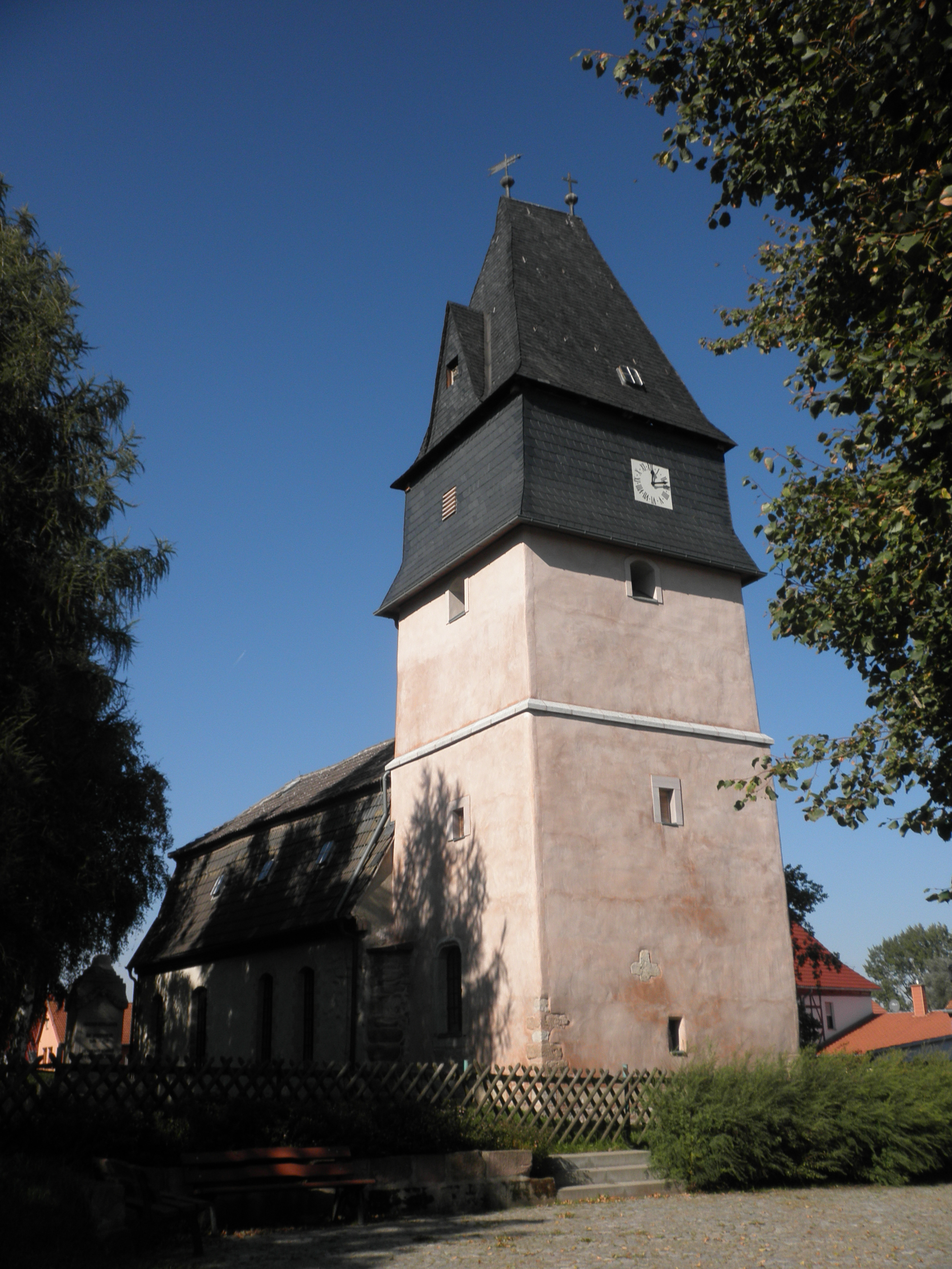 Church in Steinbrücken (Nordhausen) in Thuringia